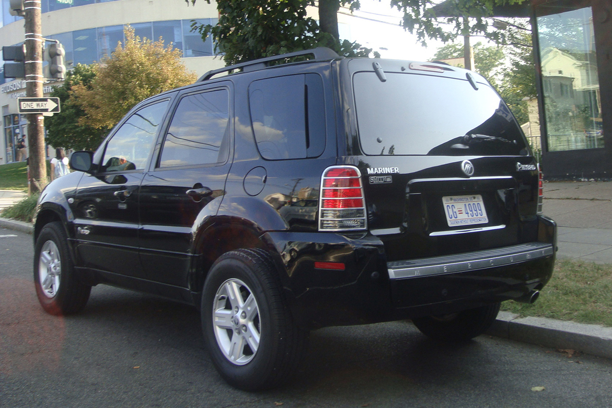 Mercury Mariner Hybrid, Washington DC, USA